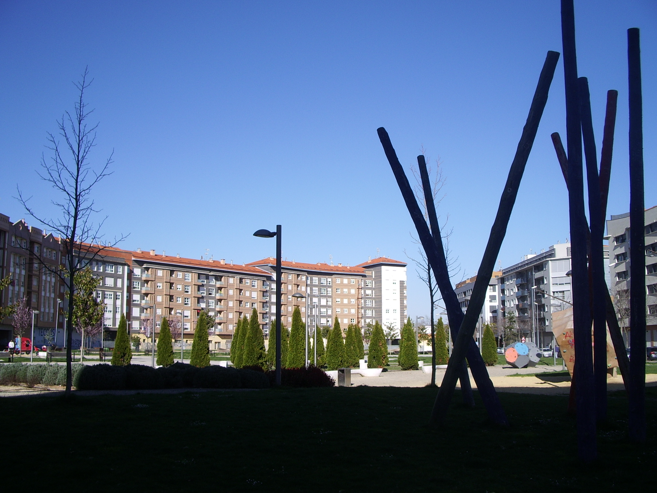 Miguel Delibes Park in Miranda de Ebro, Spain.